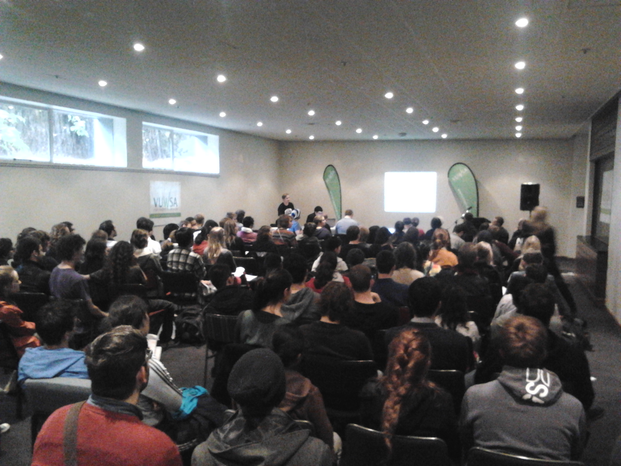 The 2013 Victoria University of Wellington Students' Association Initial General Meeting. President Rory McCourt is speaking at the front.